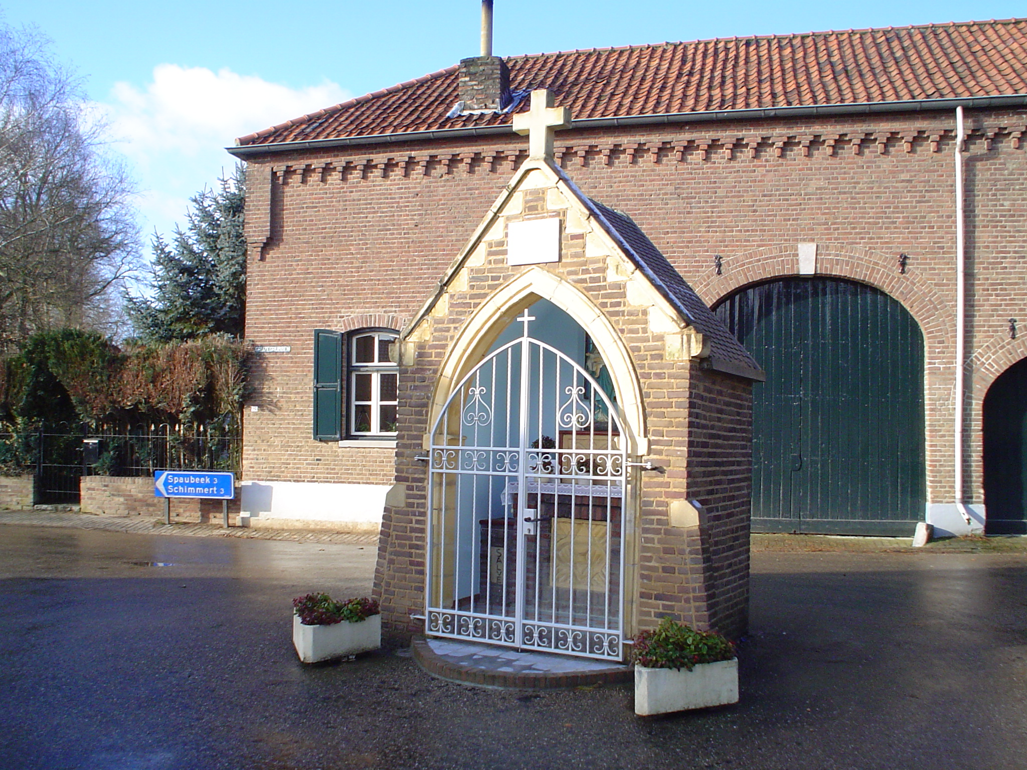 The chapel at Grijzegrubben, Nuth.